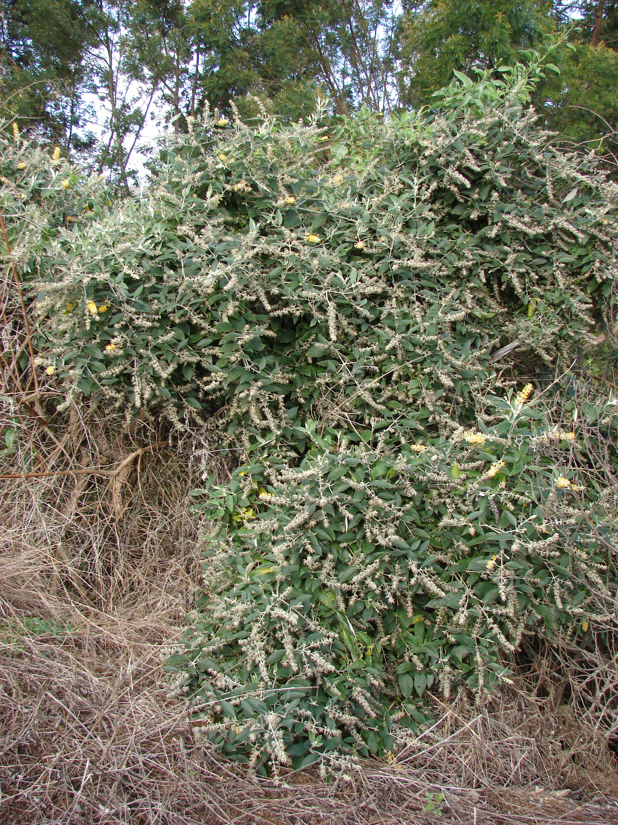 Buddleja madagascariensis (flowering habit). Location: Maui, Kula